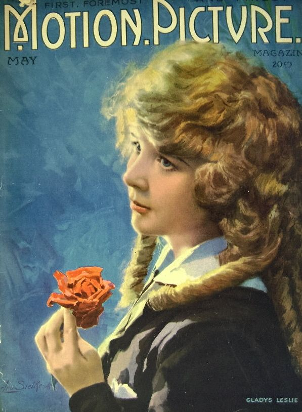 Cover of Motion Picture magazine, May 1919, with actress Gladys Leslie